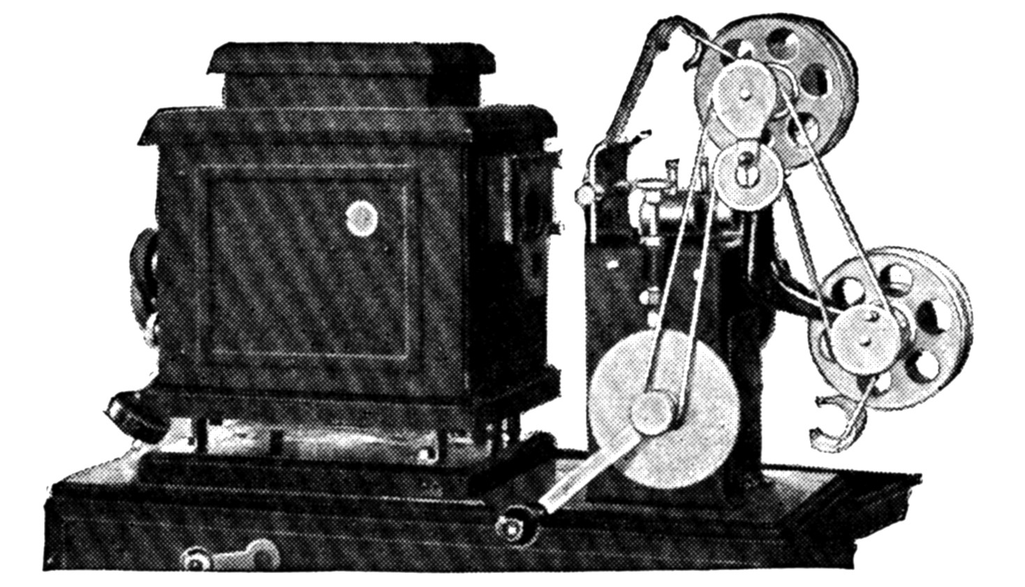 caption: "Fig. 236. The Edison Home Kinetoscope."